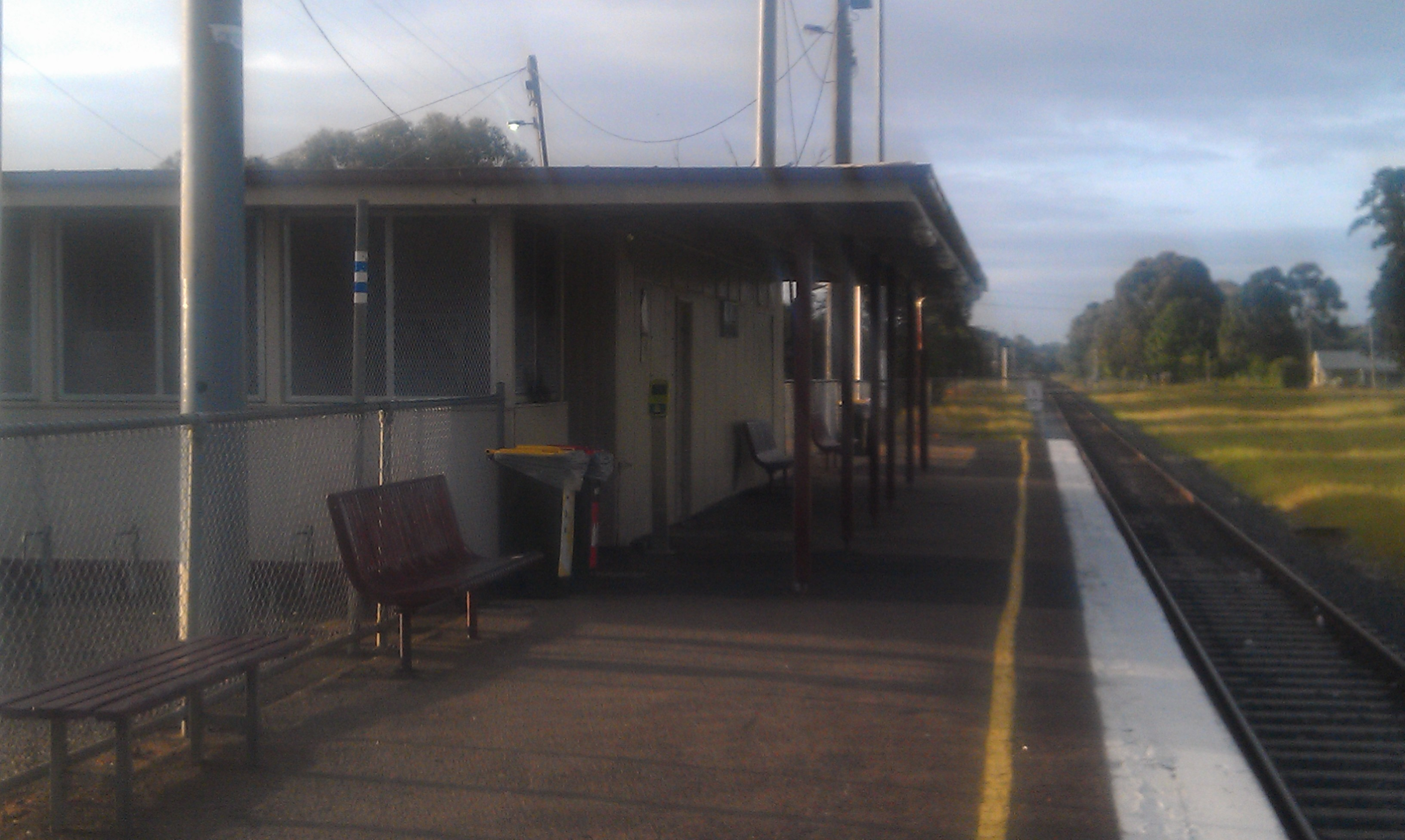 Depicted place: Hastings station